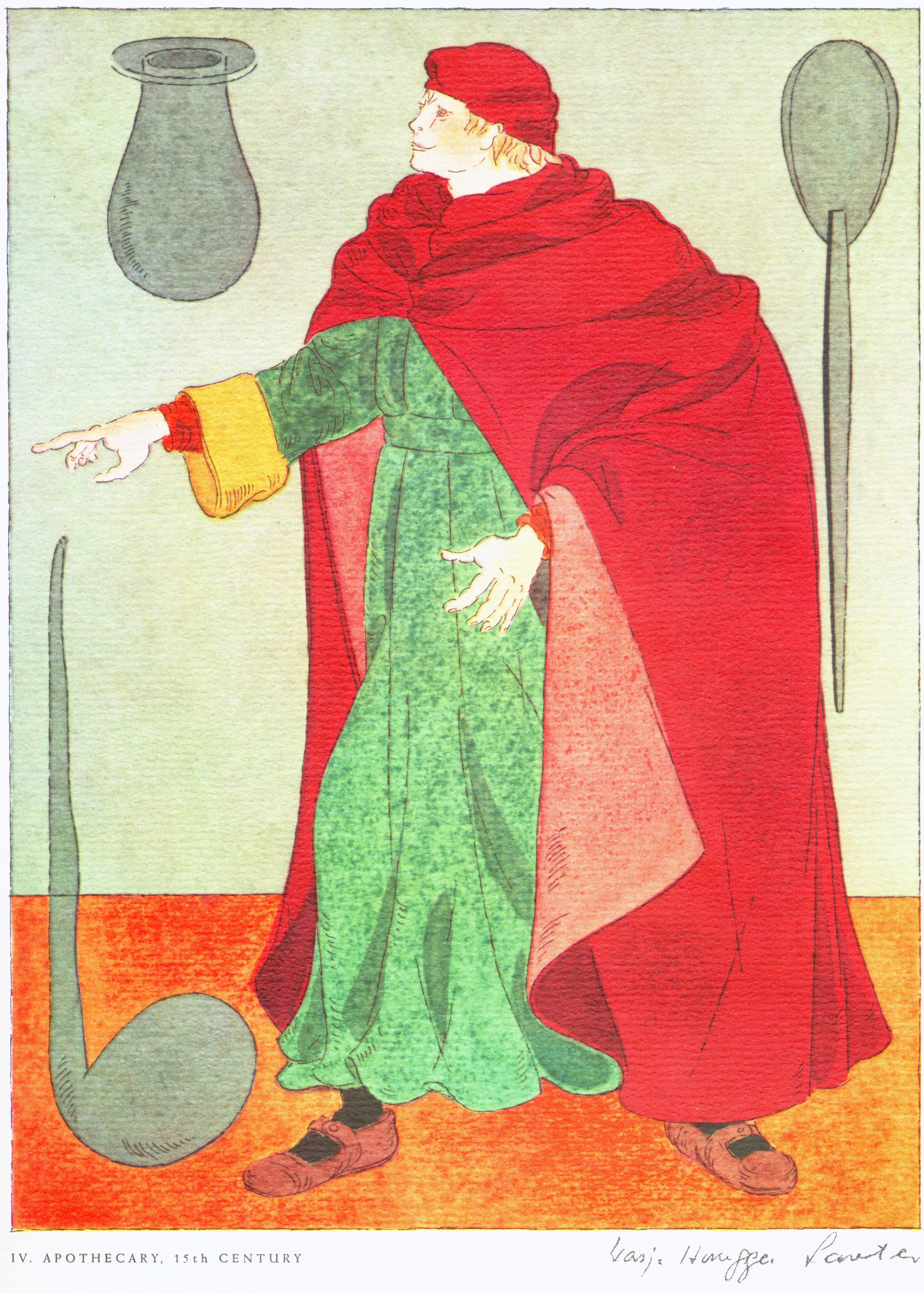 Apothecary, 15th Century - Plate IV of XII "... portrayed by the Swiss illustrator, Warja Honegger-Lavater, from authentic costume reproductions in the University of Rome's Institute of Medical History."